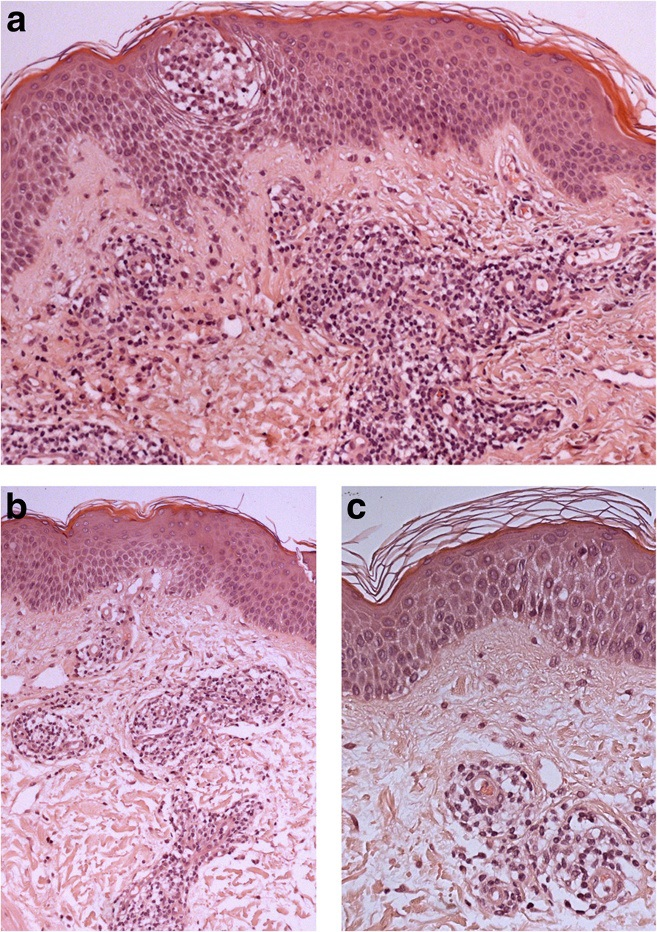 Micrograph of erythema annulare centrifugum: Histopathological findings of the skin biopsy showed a moderately intense superficial perivascular dermal lymphohistiocytic infiltrate with rare eosinophils, edema of papillary dermis, hyperkeratosis and focal epidermal spongiosis. Hematoxylin and eosin stain, original magnification: ×10 (a), ×20 (b), ×40 (c)